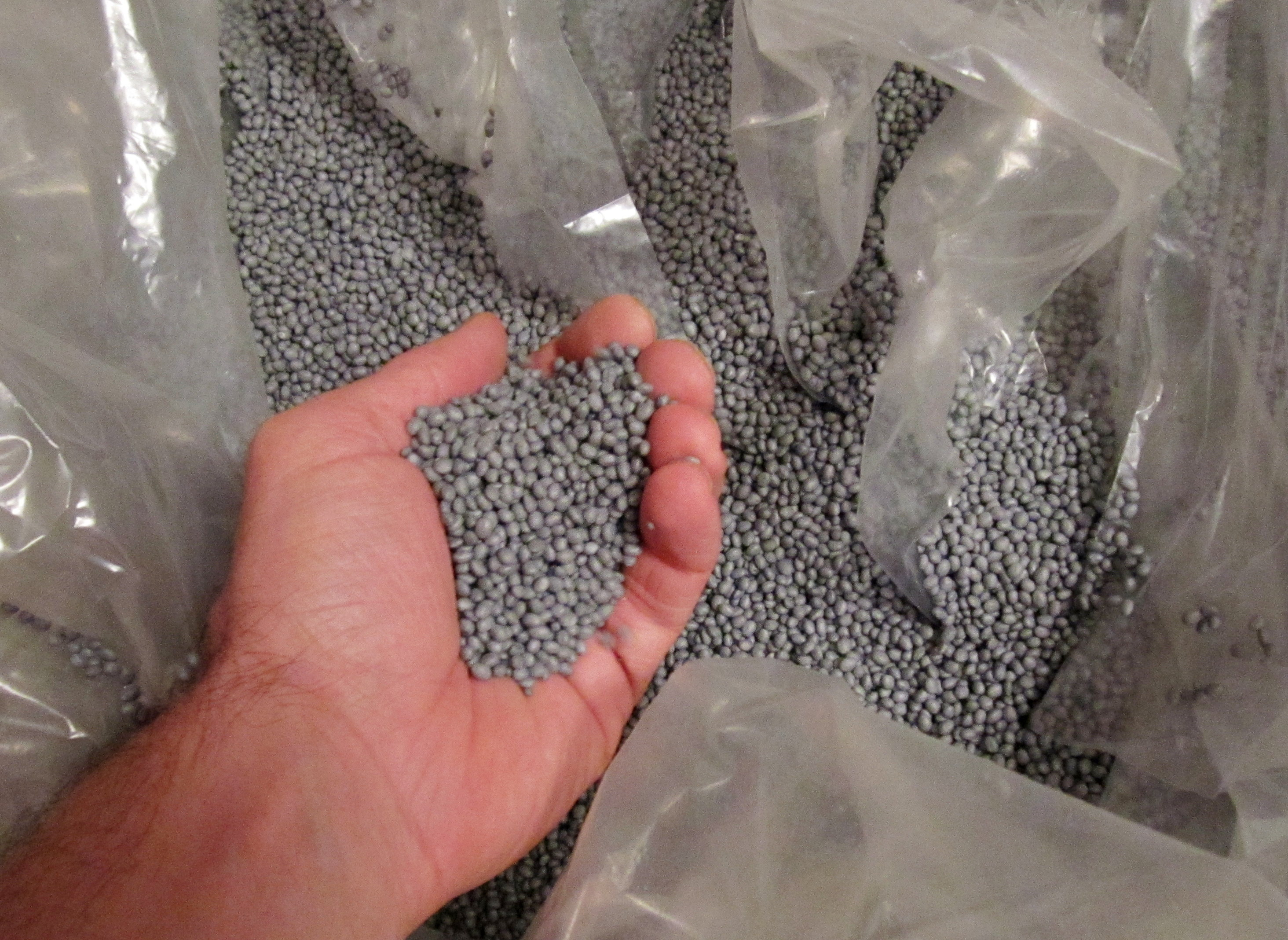 Expanded Polystyrene Particle Foam with Graphite as infrared absorber